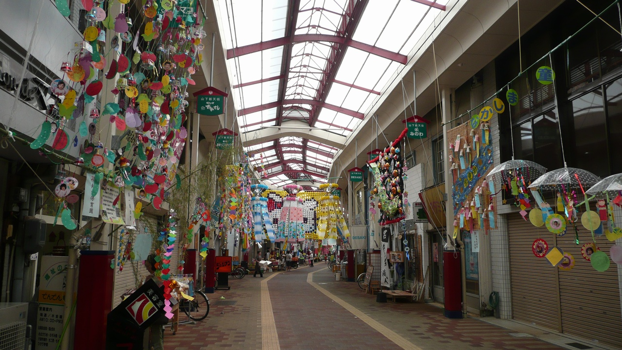 Yamashita Shintengai Shōtengai (Nobeoka, Miyazaki, Japan)